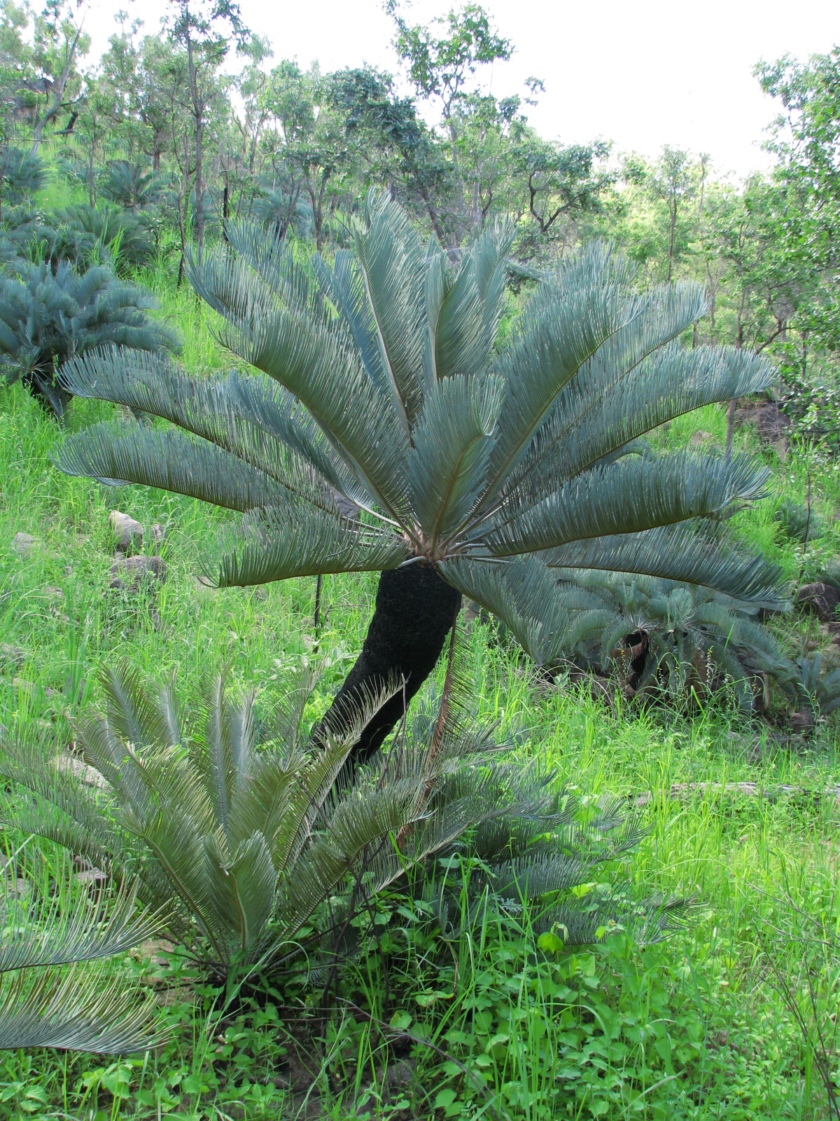 Cycas platyphylla Neat specimen